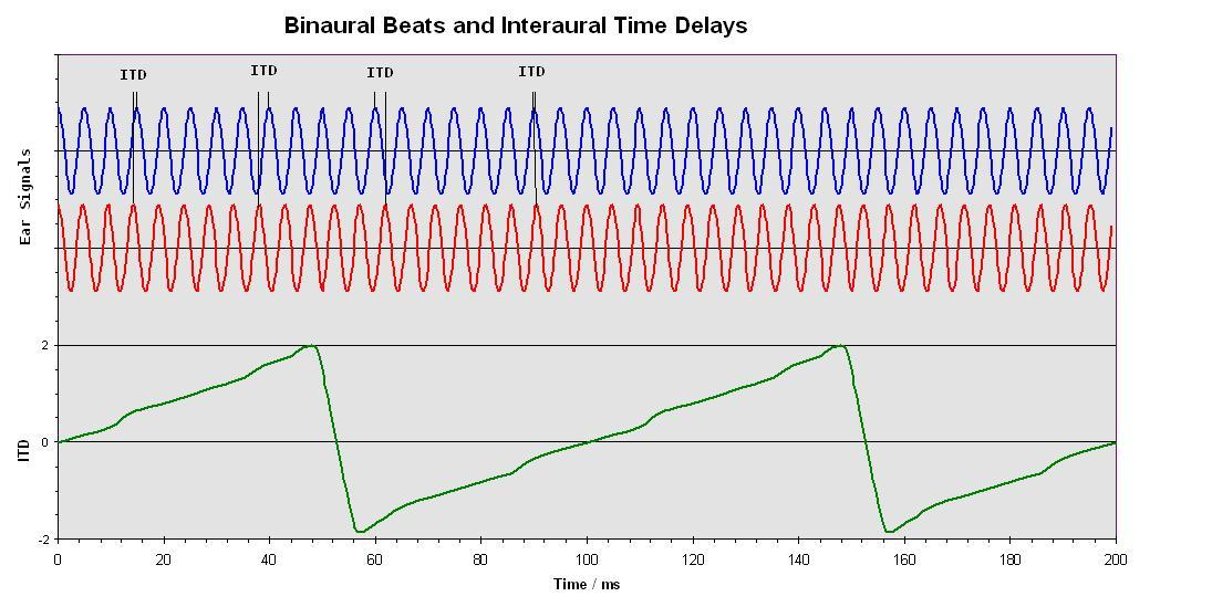 Binaural Beats and Interaural Time Differences Blue and red graph: Ear signals at binaural beat experiments (example) Green graph: Interaural time delay (ITD), resulting from these ear signals